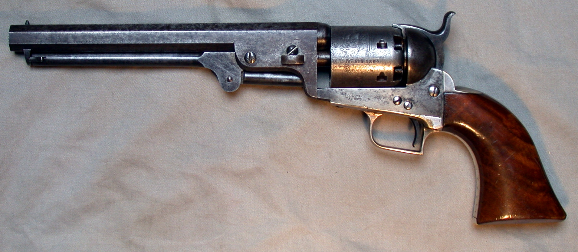 Colt Navy 51, cal .36, second model, squareback Triggerguard